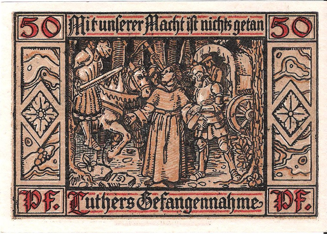 local emergency money, Eisenach 1921